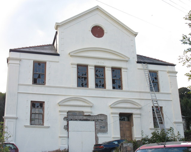 Capel Barachiah A disused chapel with an unusual name. (Apparently Barachiah was the father of Zechariah). Cwm-y-Glo has two remaining places of worship, the united non-conformist Y Tabernacl and St Gabriel's CoW Church.